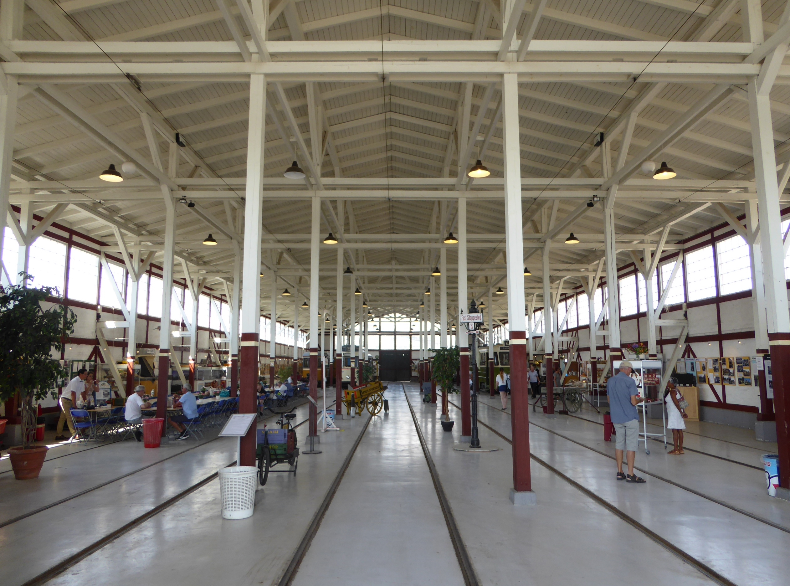 Interior of the tram depot and exhibition building Valby Gamle Remise at Sporvejsmuseet Skjoldenæsholm in Denmark.